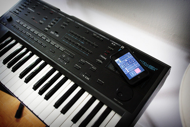 a roland pro-e keyboard (for MIDI control) and an ipod touch running touchOSC Roland PRO-E Intelligent Arranger